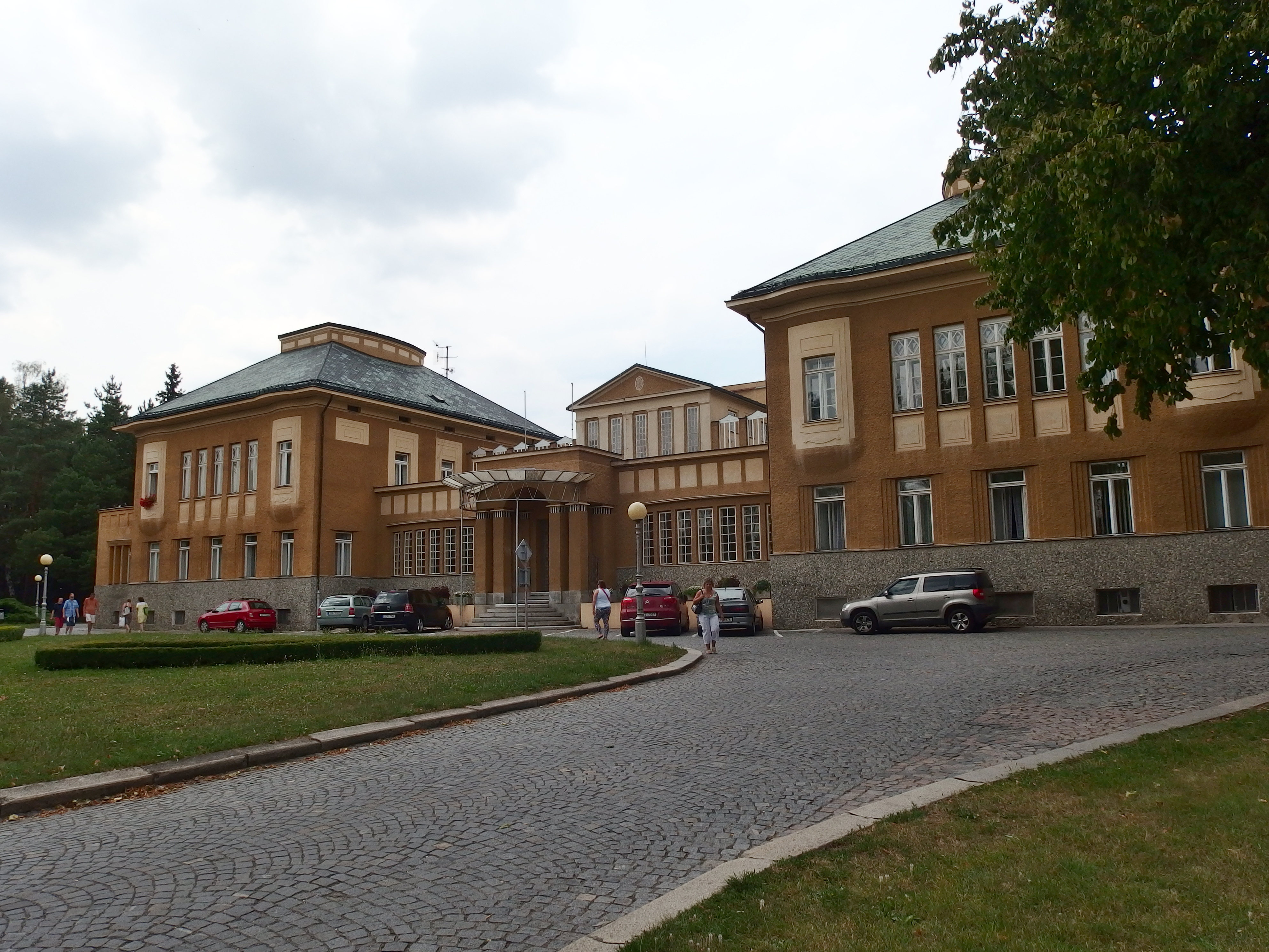 Kroměříž, Czech Republic. Hospital of Psychiatry.